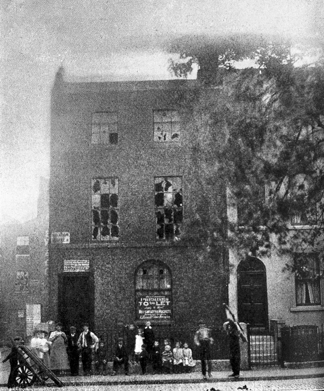 No. 1 Hoxton Square, the home of James Parkinson Wellcome Images Keywords: James Parkinson